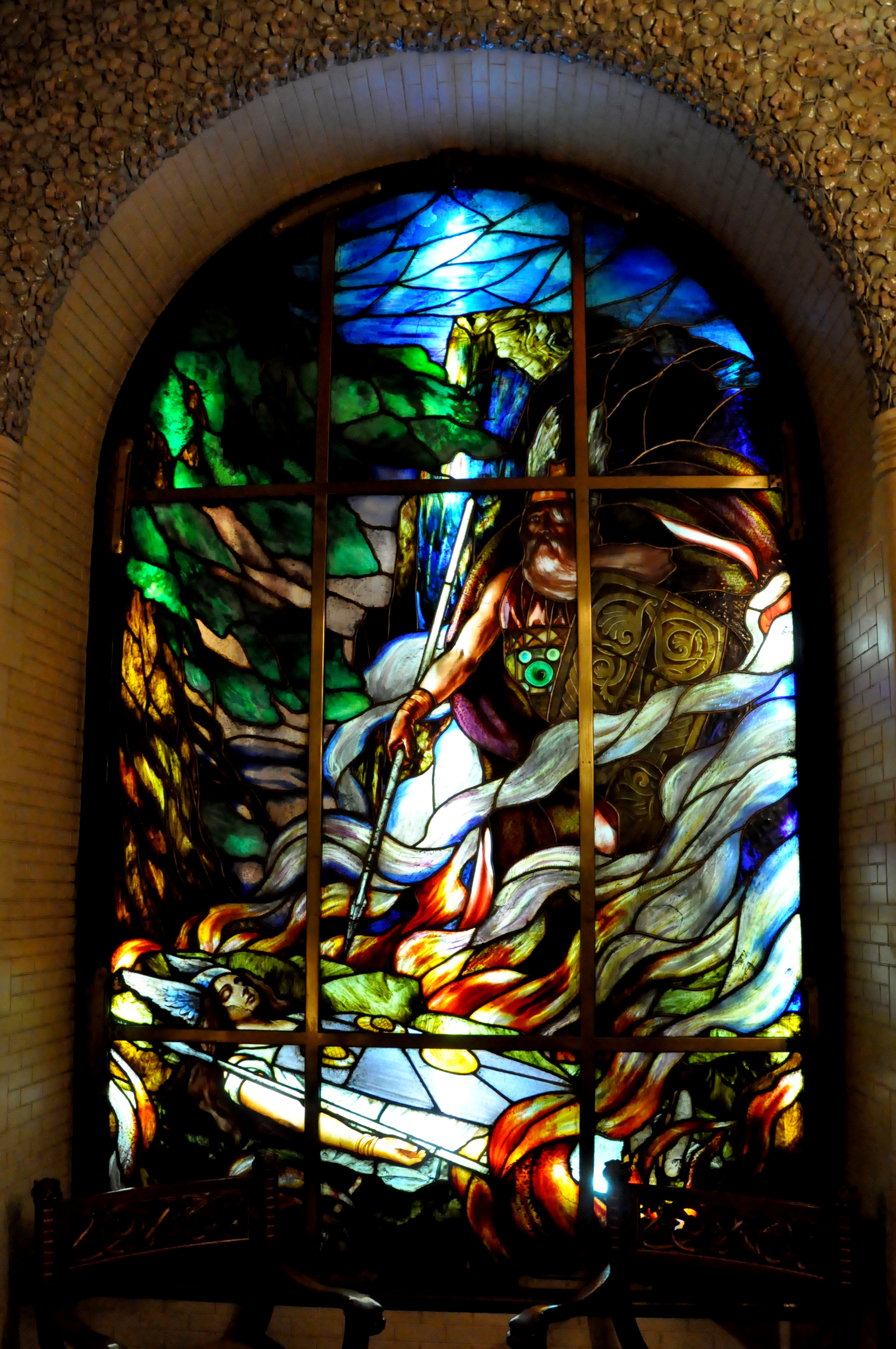 Vidriera del Cercle del Liceu que representa "La Walkíria" de Wagner, amb l'escena de la dormició de Brünnhilde mentre Wotan la fa rodejar pel foc del déu Loge.